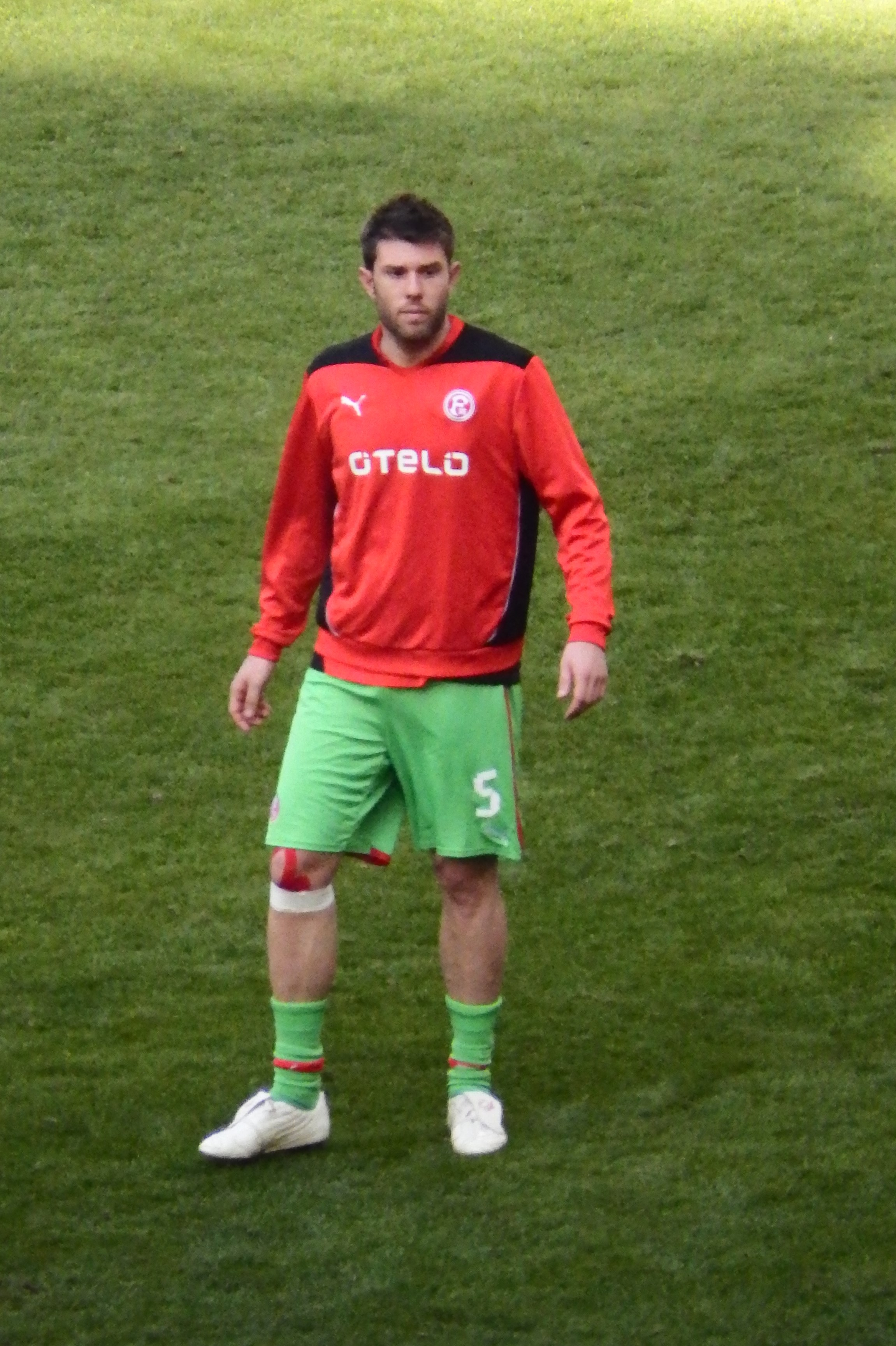 Juanan as player from Fortuna Düsseldorf